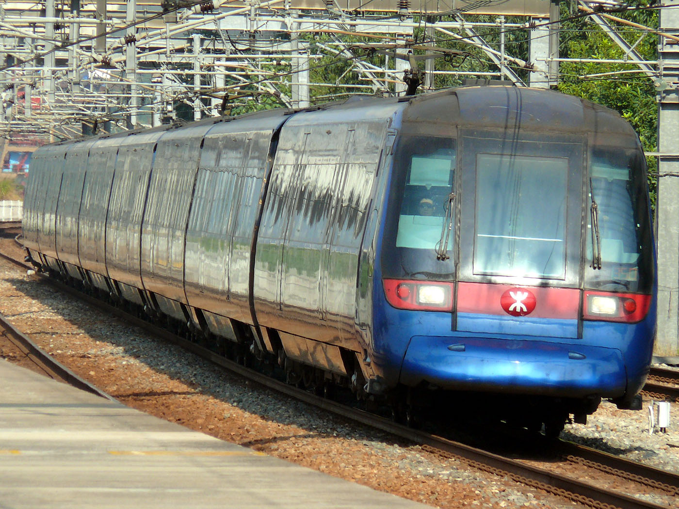 MTR Airport Express Line